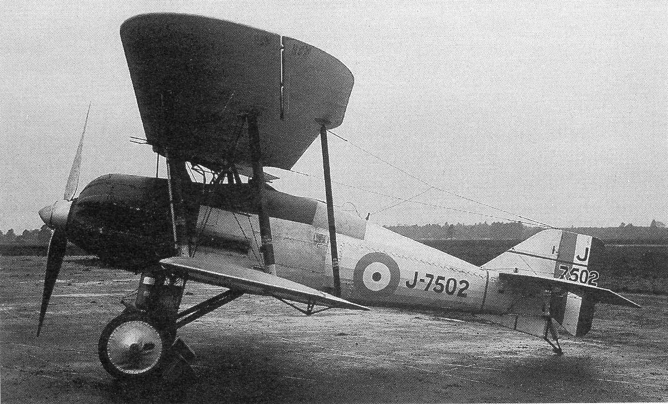 Gloster Gamecock J7502, experimentally fitted with direct drive Napier Lion engine, winter 1925-6